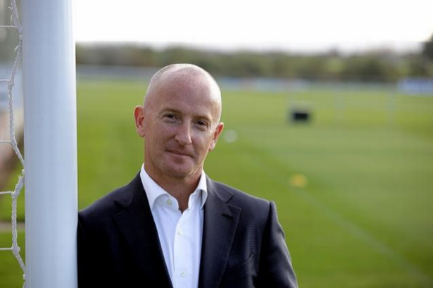 Errol Damelin